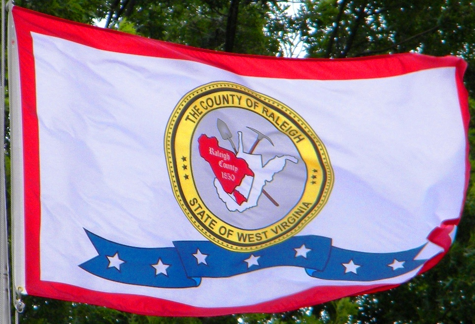 Photograph of Raleigh County West Virginia Flag